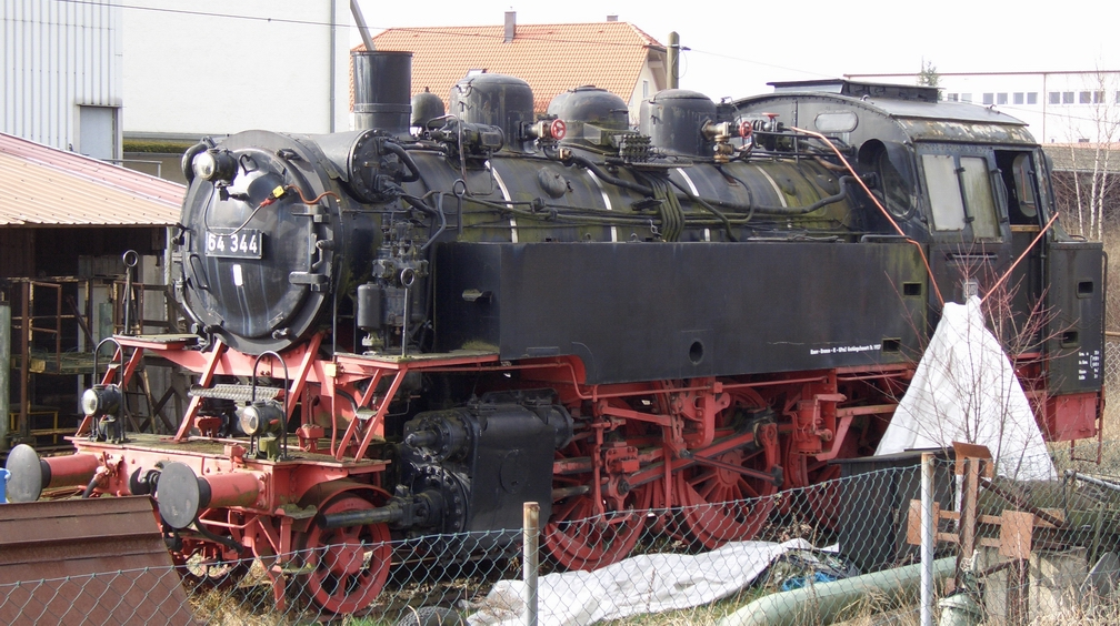 Locomotive 64 344 at Plattling station, Bavaria, Germany.